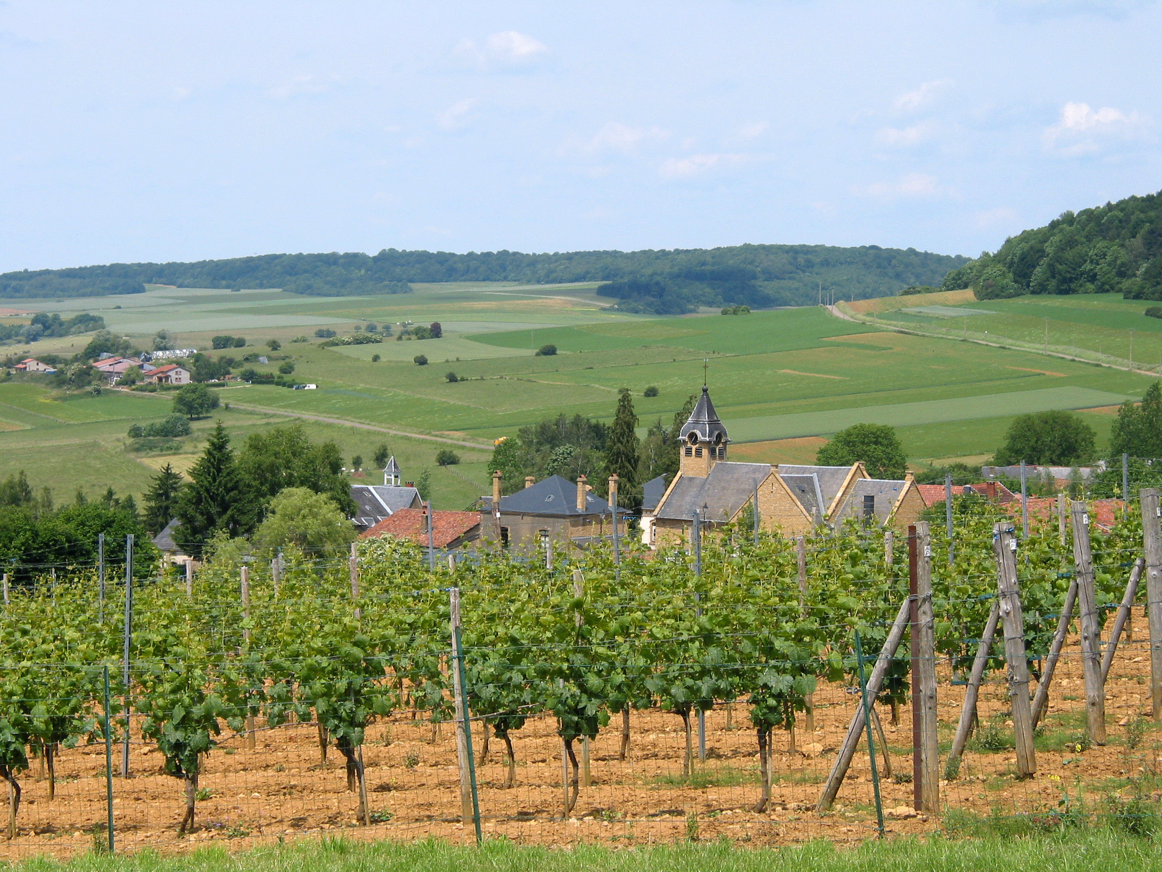 Torgny (Belgium), a grape field of the village.